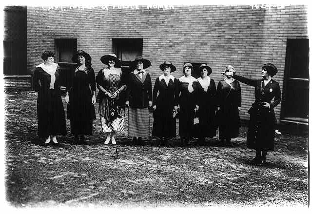 New York City Captain Edyth Totten and women's police reserve June 25, 1918